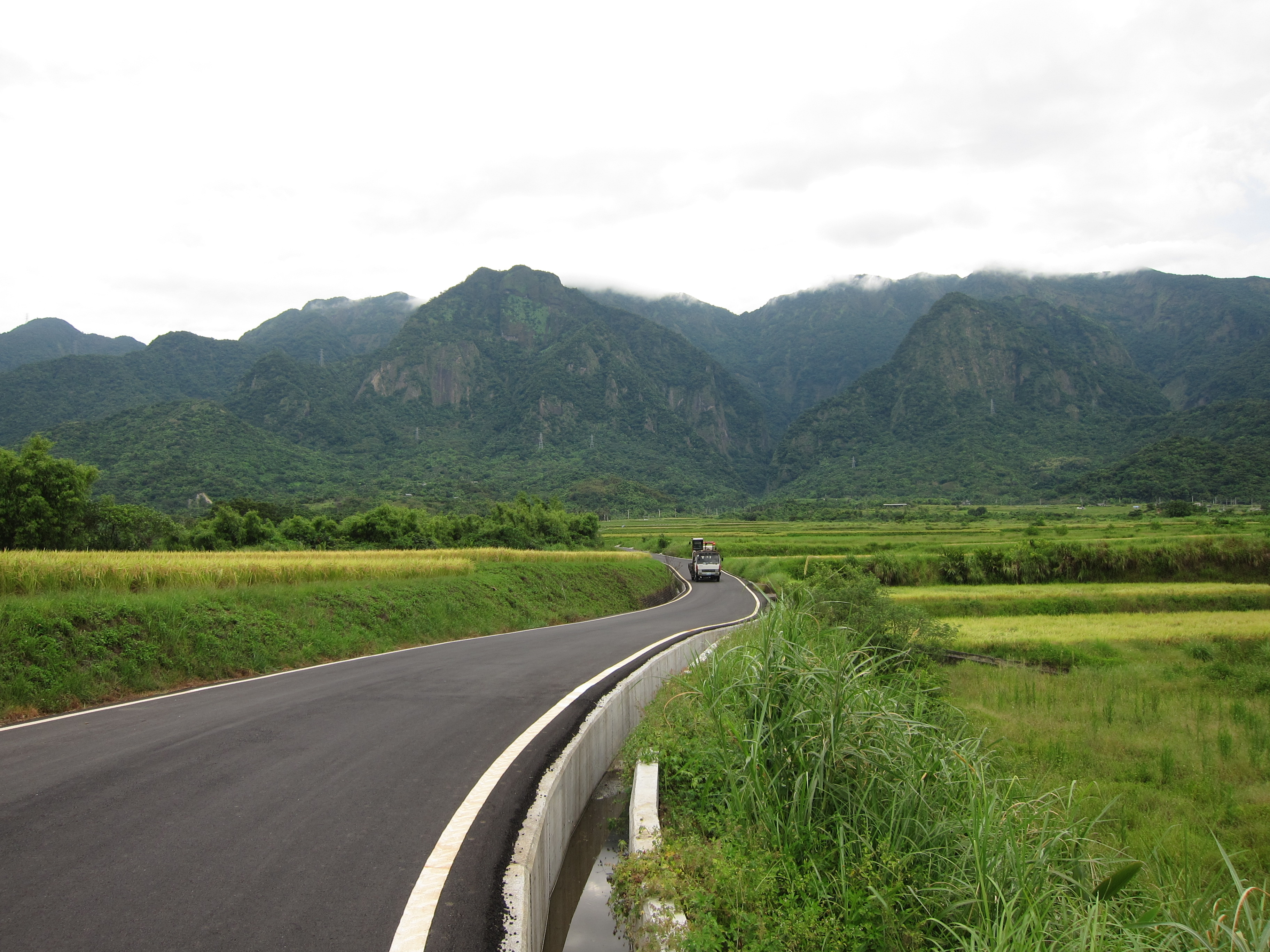 Landscape in Changbin Township, Taitung County, Taiwan.